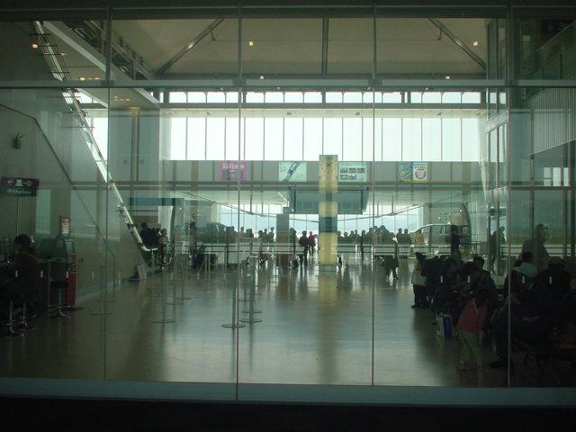 New Kitakyushu Airport terminal lobby as seen from the departure lounge. Photograph taken by the uploader.